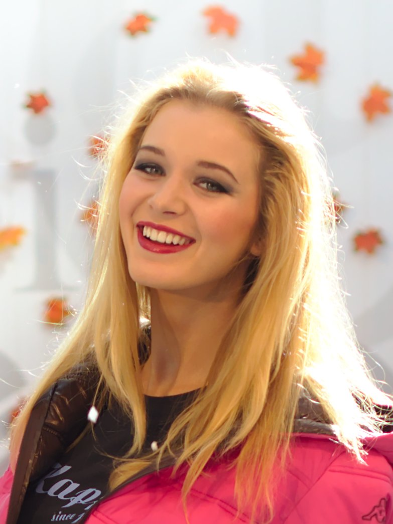 Gabriela Frankova at Olympia Fashion Show 2014 (Brno)